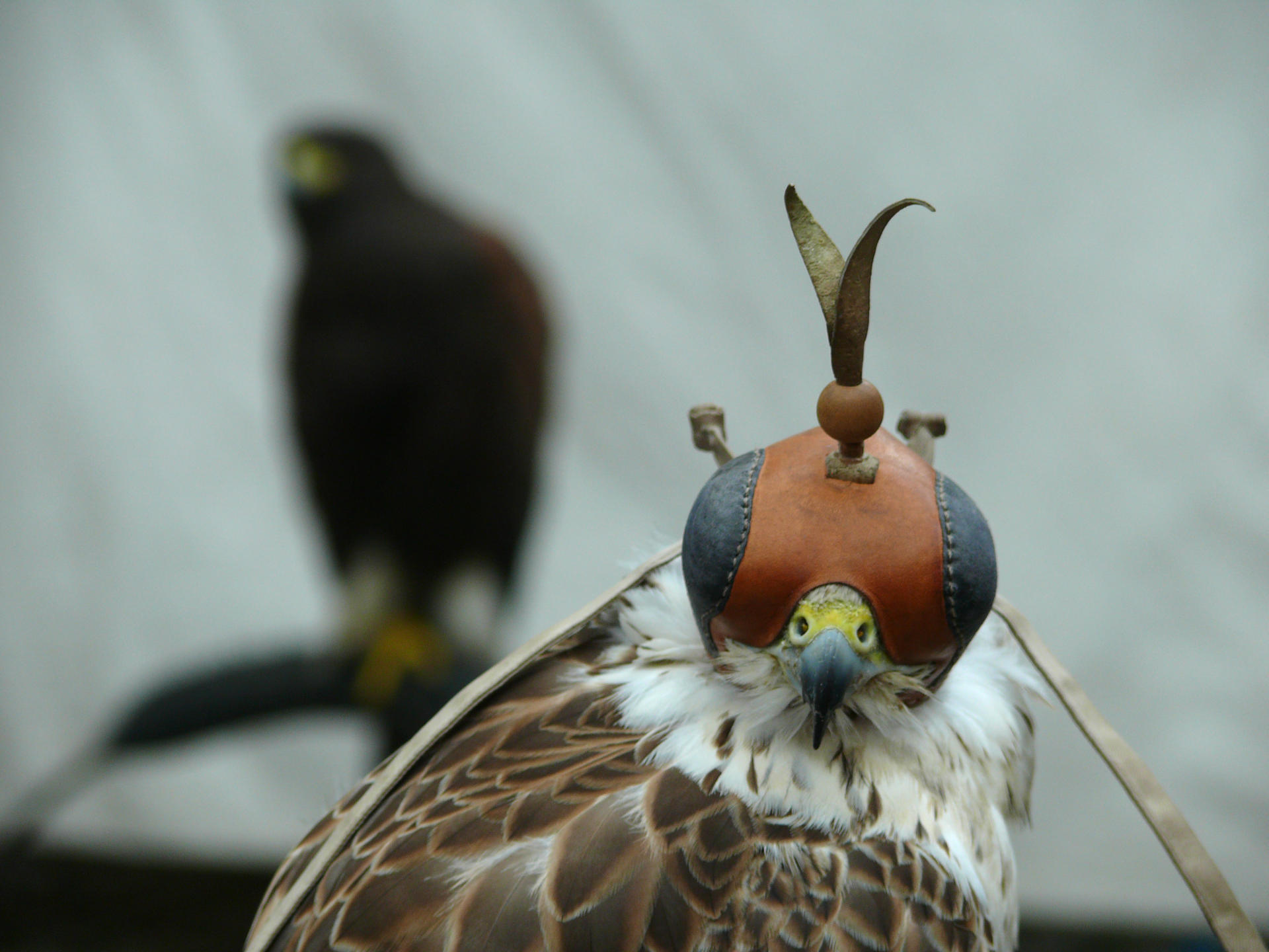 Falconer's bird in the hood